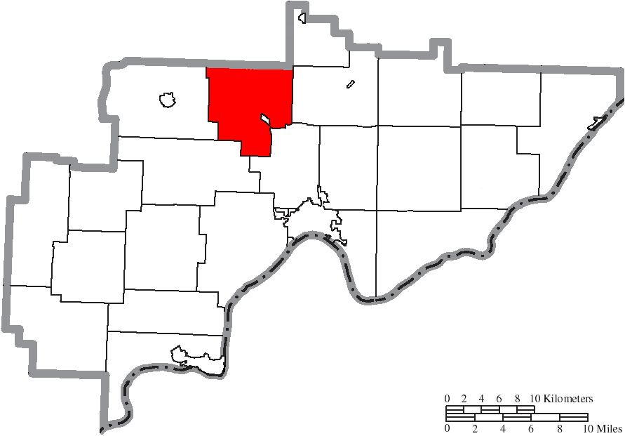 Map of the municipal and township boundaries of Washington County, Ohio, United States, as of the 2000 census, with the location of Adams Township highlighted. Township borders are shown only in unincorporated areas in order to differentiate incorporated and unincorporated areas more clearly.